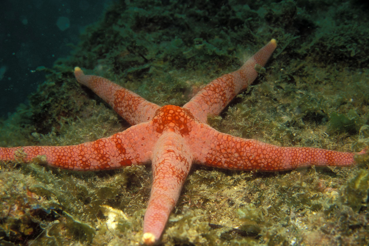 A starfish in the beautiful South Atlantic waters of Brazil. I highly recommend diving with PL Divers if you are ever in Arraial Do Cabo (or the Cabo Frio area). The owner Paulo Lopes and his multilingual staff will treat you to the best diving, food, conversation, and company in Brazil!!